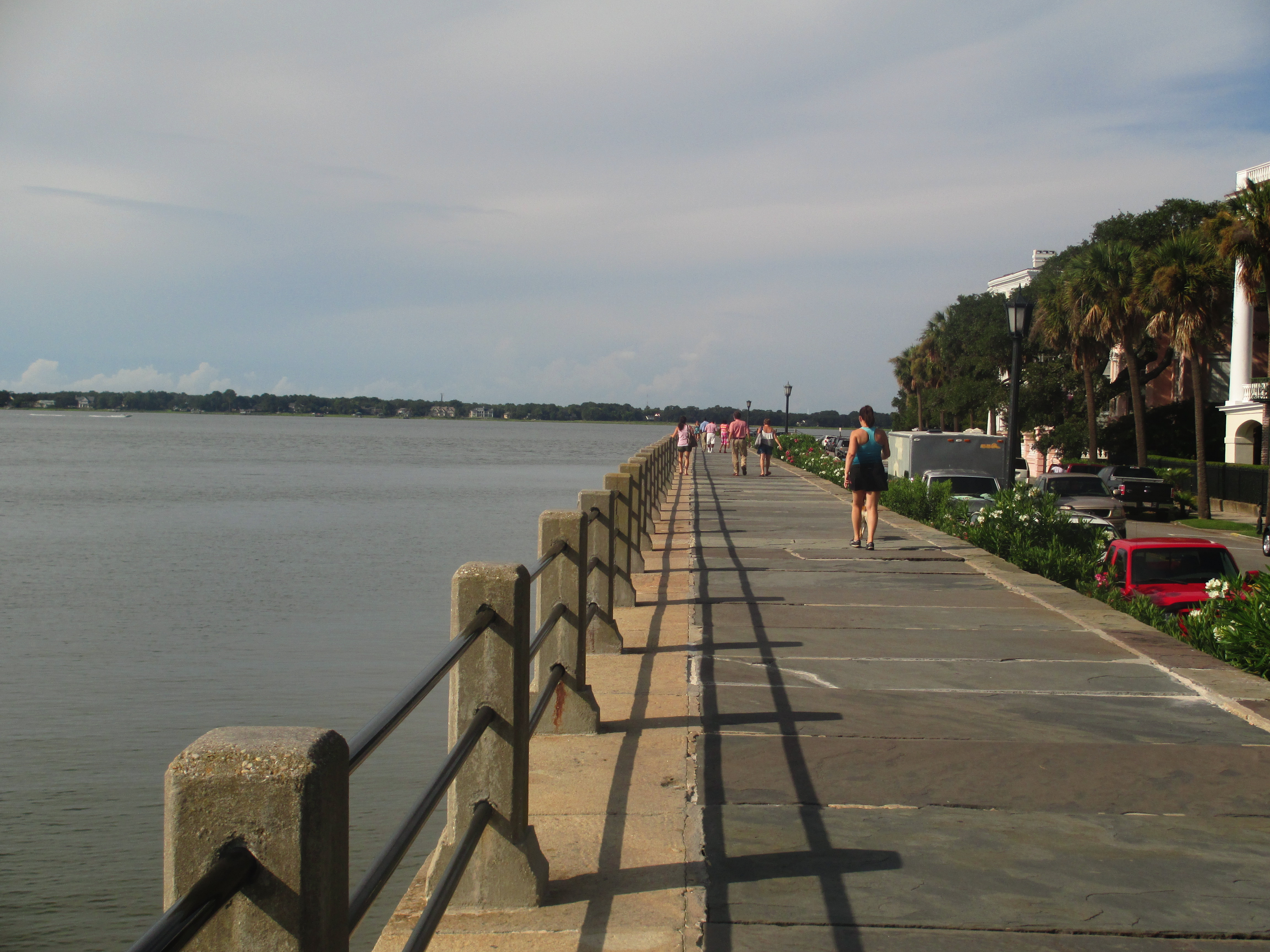 I took photo of waterfront in Charleston, SC, with Canon camera.